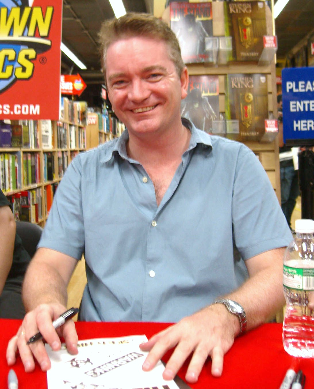 Artist Mike Perkins at the September 10, 2008 midnight signing of The Dark Tower: Treachery and The Stand: Captain Trips at Midtown Comics in Times Square, New York. This photo was created by Luigi Novi. It is not in the public domain, and use of this file outside of the licensing terms is a copyright violation.